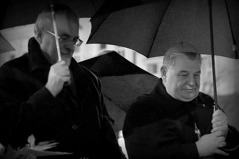 Dominik Duka s Joelem Rumlem při uctění památky Jana Palacha, leden 2014